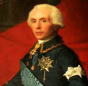 The Swedish general Curt von Stedingk, dressed in the uniform of a Swedish general, with the Royal Order of the Sword around his neck and the Royal Order of the Seraphim on his breast.